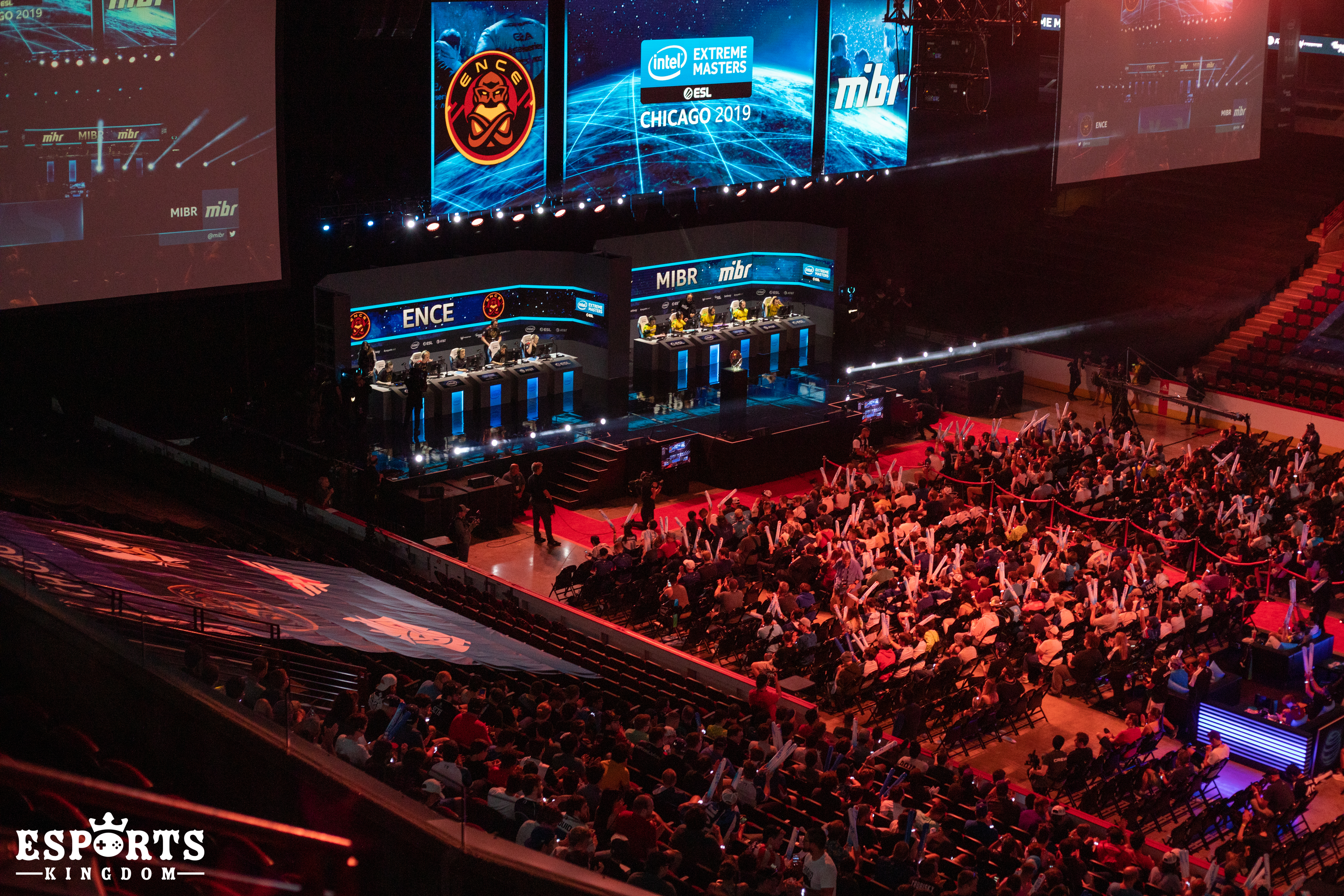 IEM Chicago Final Edits-9456